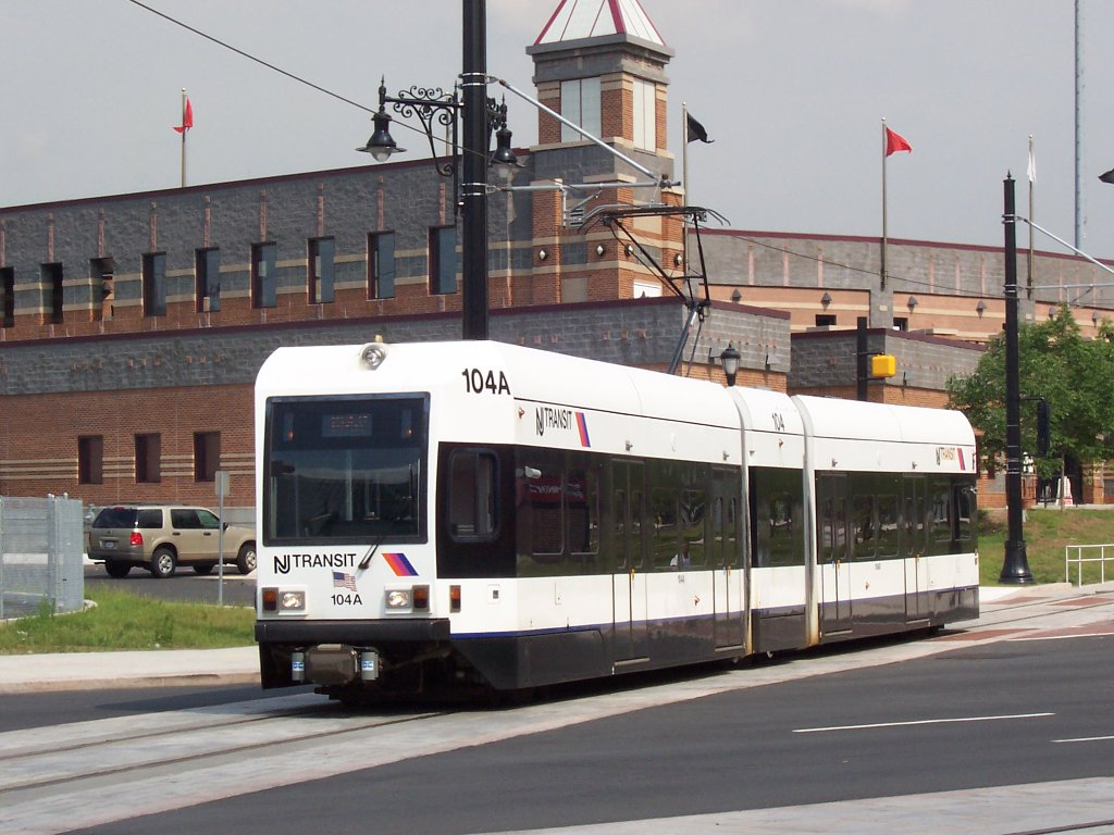 NJ Transit Newark Light Rail #104 crossing Broad Street in Newark, New Jersey, to enter the Newark-Broad St. Station.